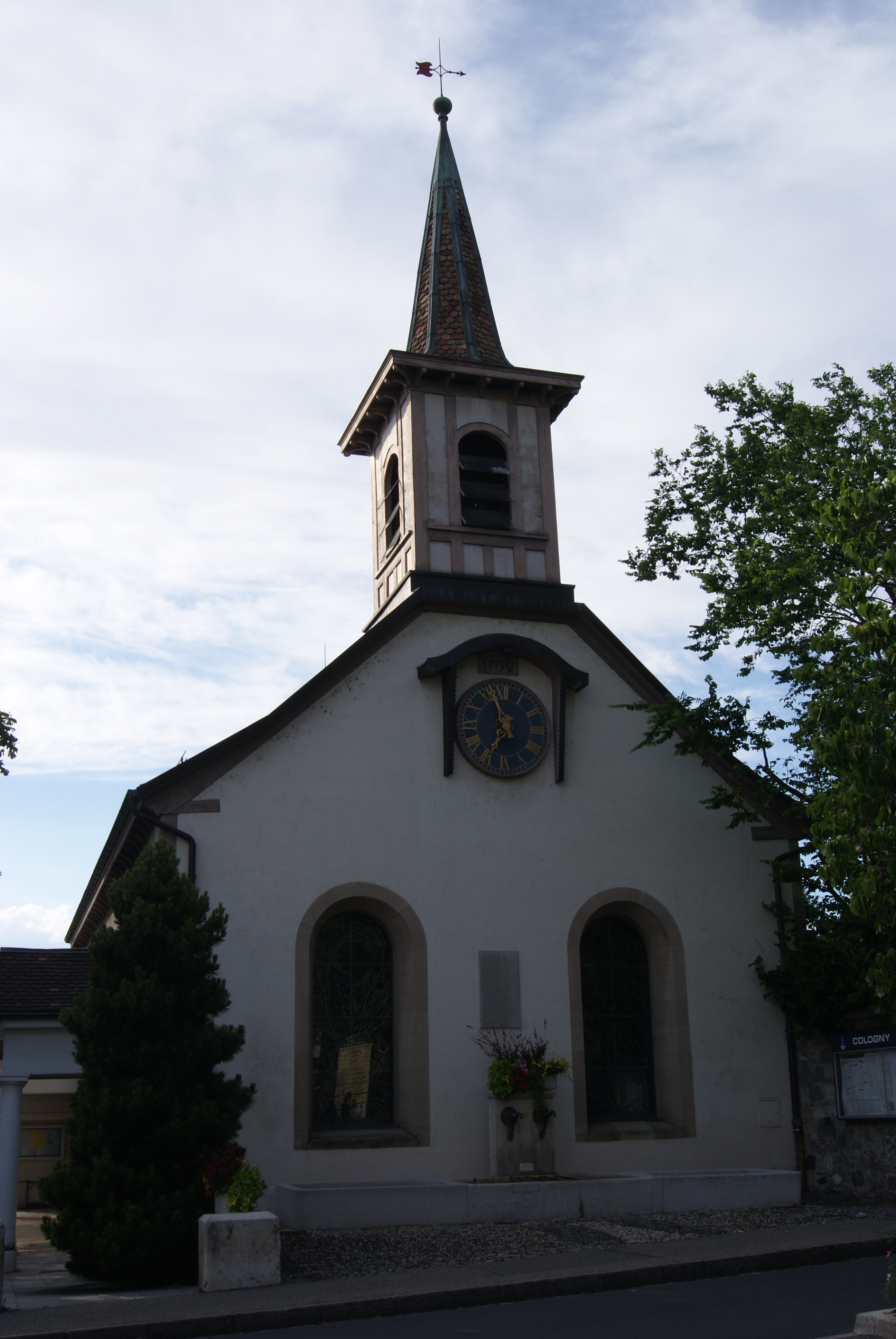 The Temple de Cologny in Cologny, Geneva, Switzerland.